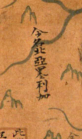 Detail of the Zheng He map, Image:Zhenghemap.jpg